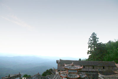 Anshan Provincial Forest Park in Jianyang, Fujian, China中文（中国大陆）: 建阳市庵山省级森林公园